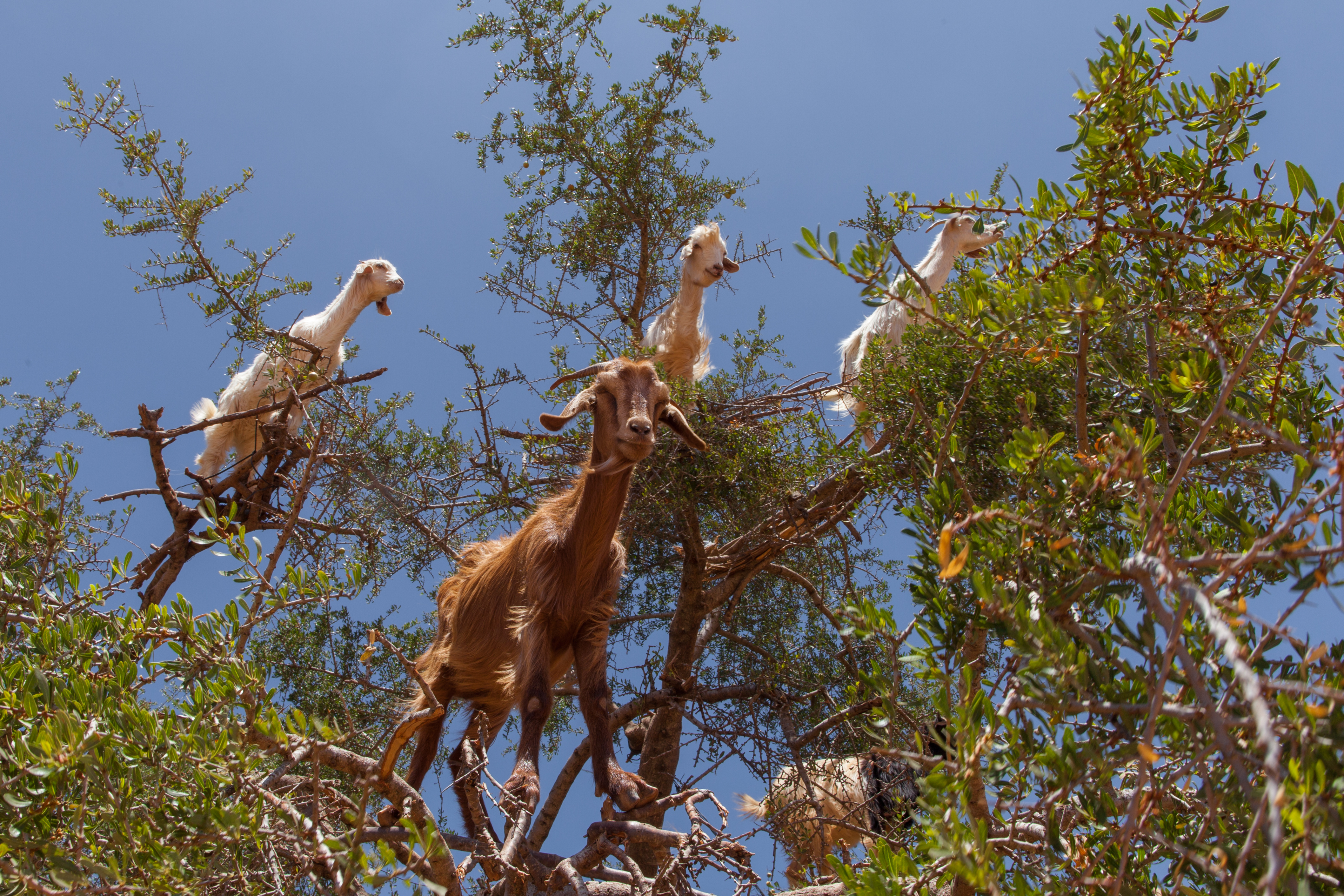 Goats in an argan tree